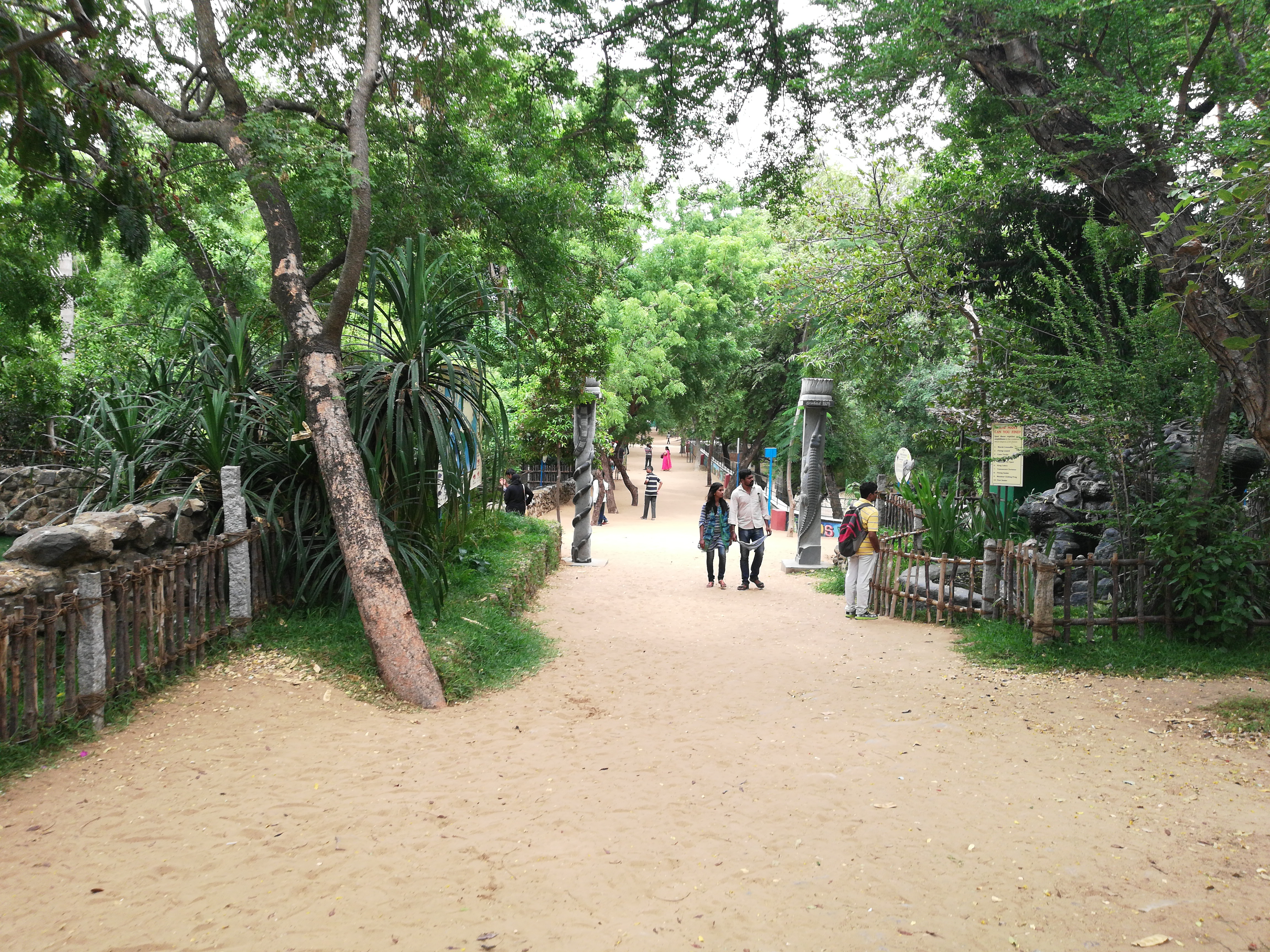 Walkway at the CrocBank, Chennai, on 21 July 2018